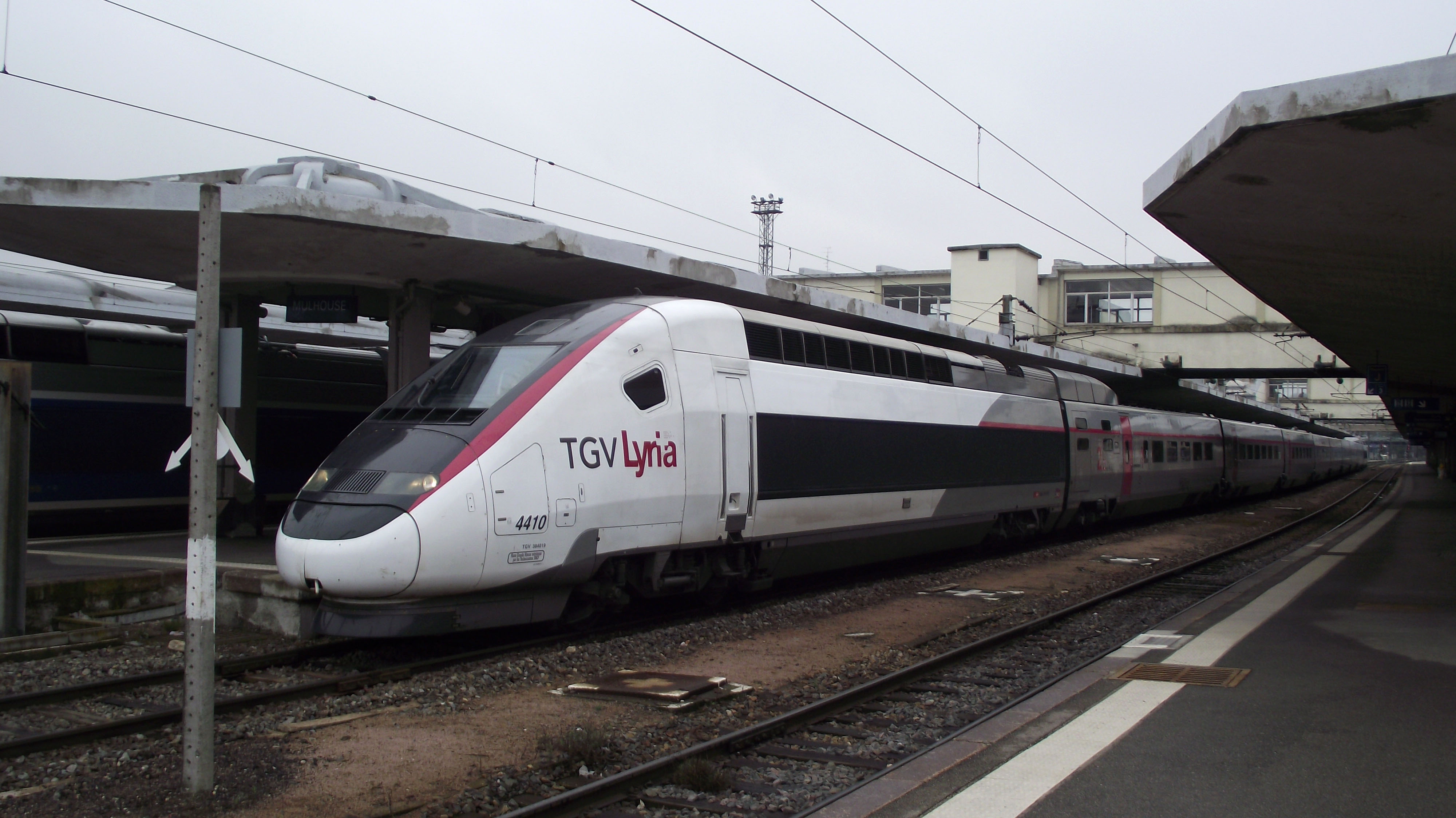 The new « Carmillon » livery for Lyria dedicated TGV trains.